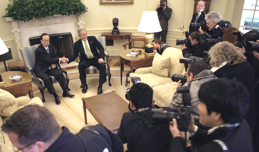 Japanese Prime Minister Yasuo Fukuda and the US President George W. Bush exchange handshakes following their first meeting at the White House.